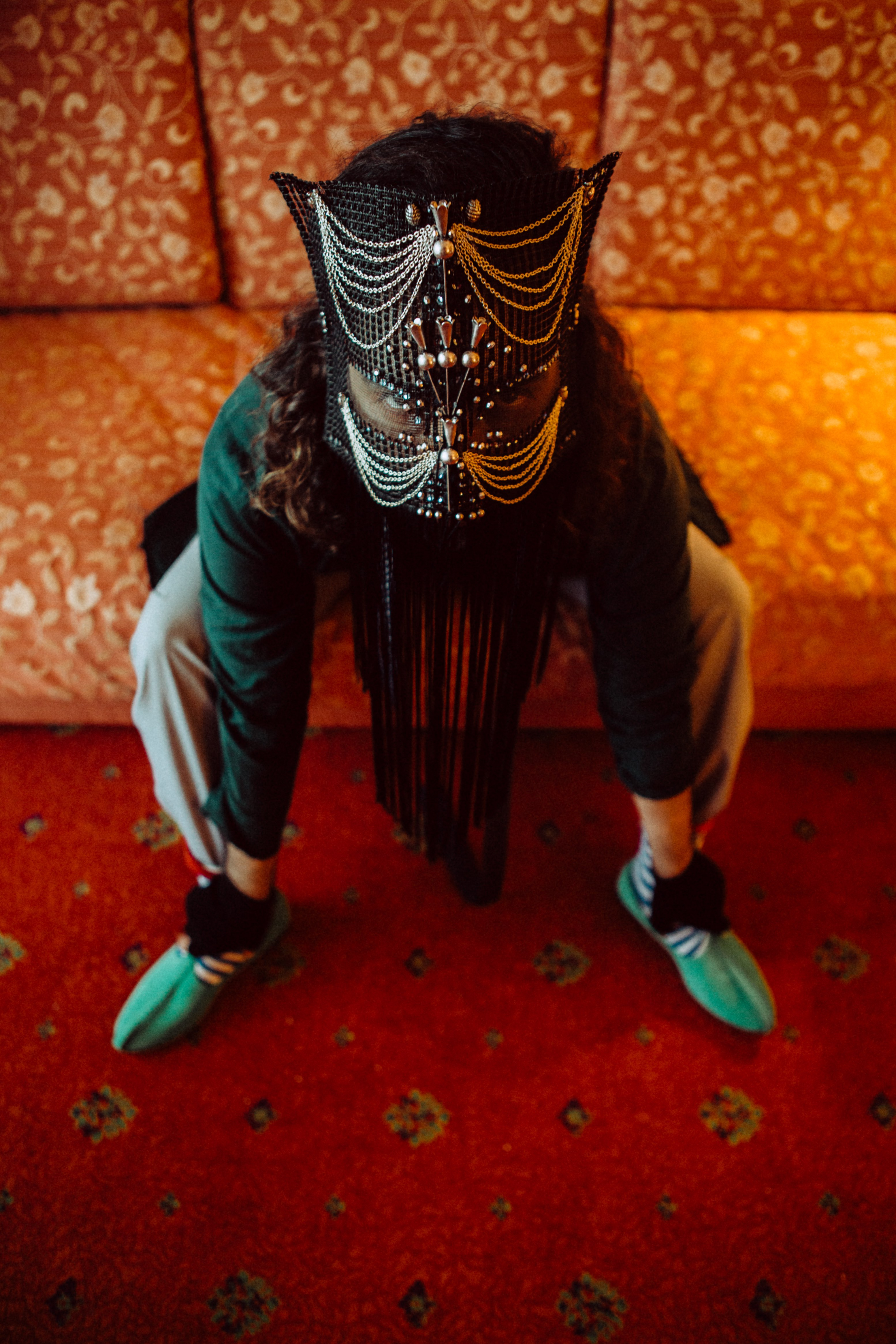 Zahed Sultan by Bechir Zayene